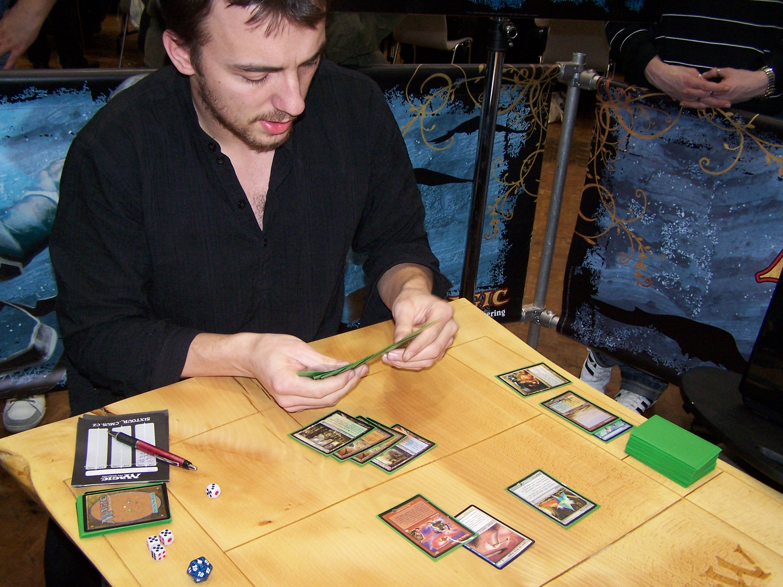 Picture of Olivier Ruel at GP Hanover (playing against Carsten Schäfer in round 9)